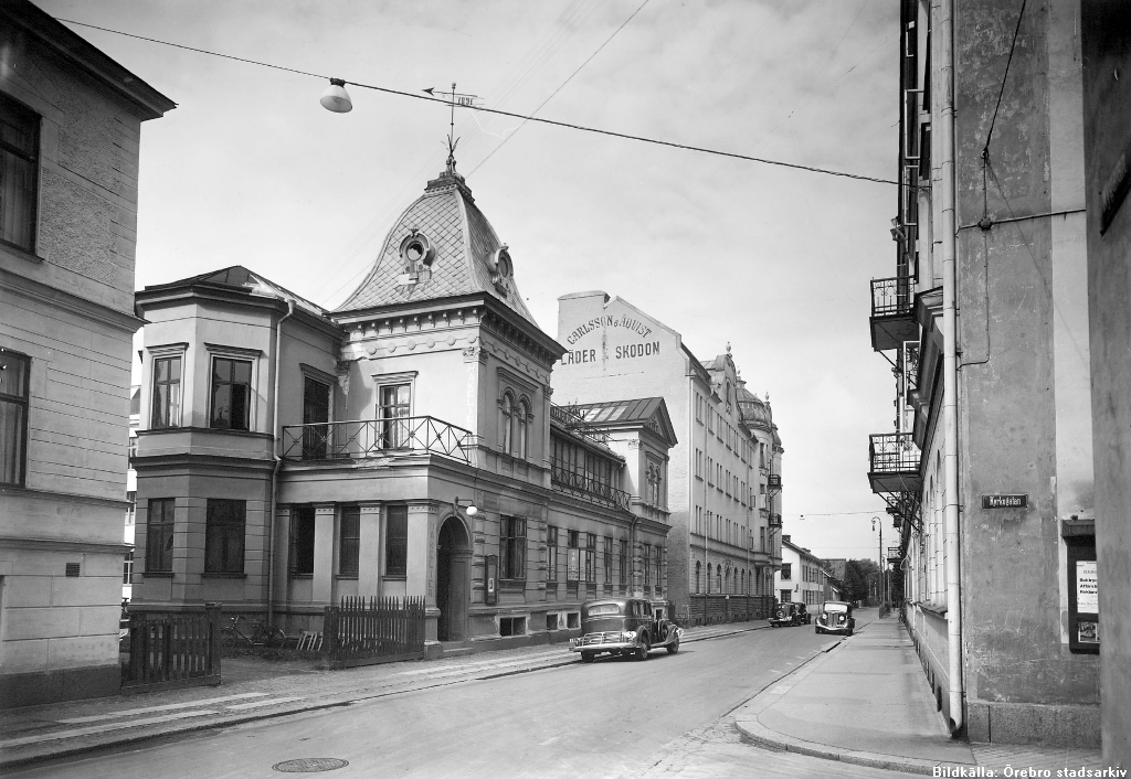 Bernhard Hakelier's photographic atelier, Örebro, Sweden